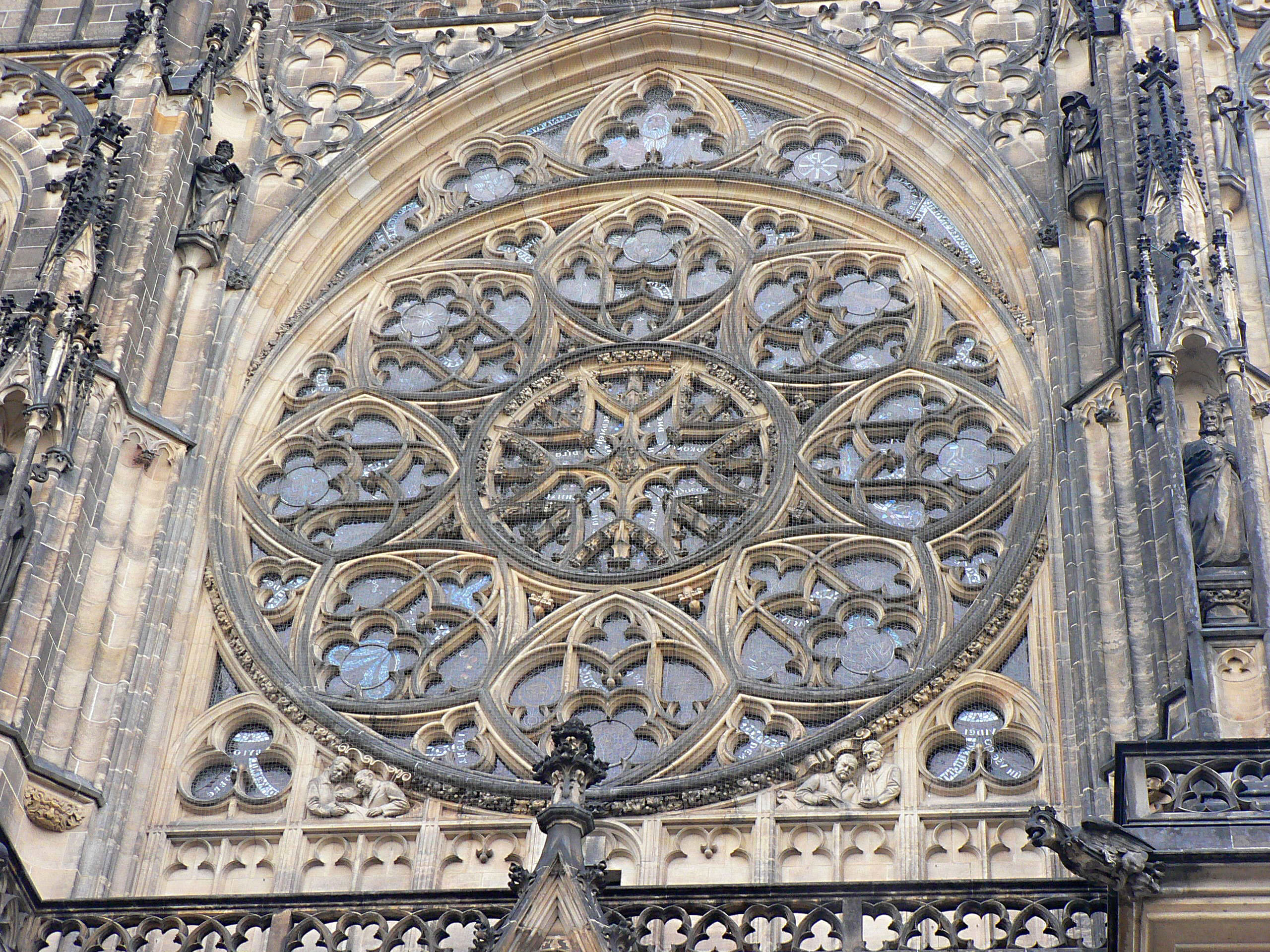 Rose window of the Gothic\Neo-Gothic St. Vitus cathedral